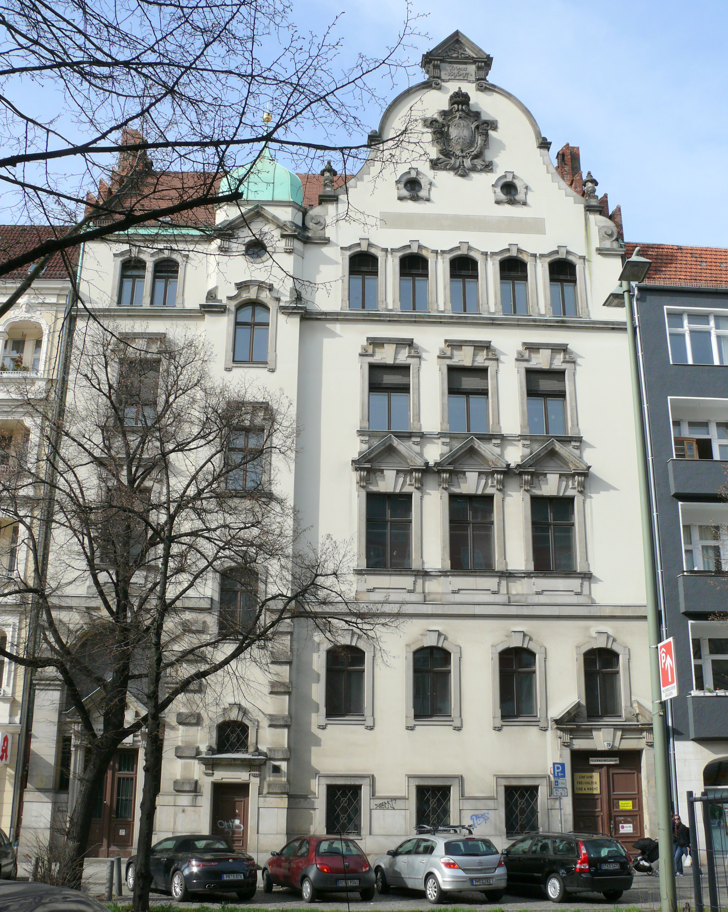 Berlin-Charlottenburg Kantstraße 79 Strafgericht